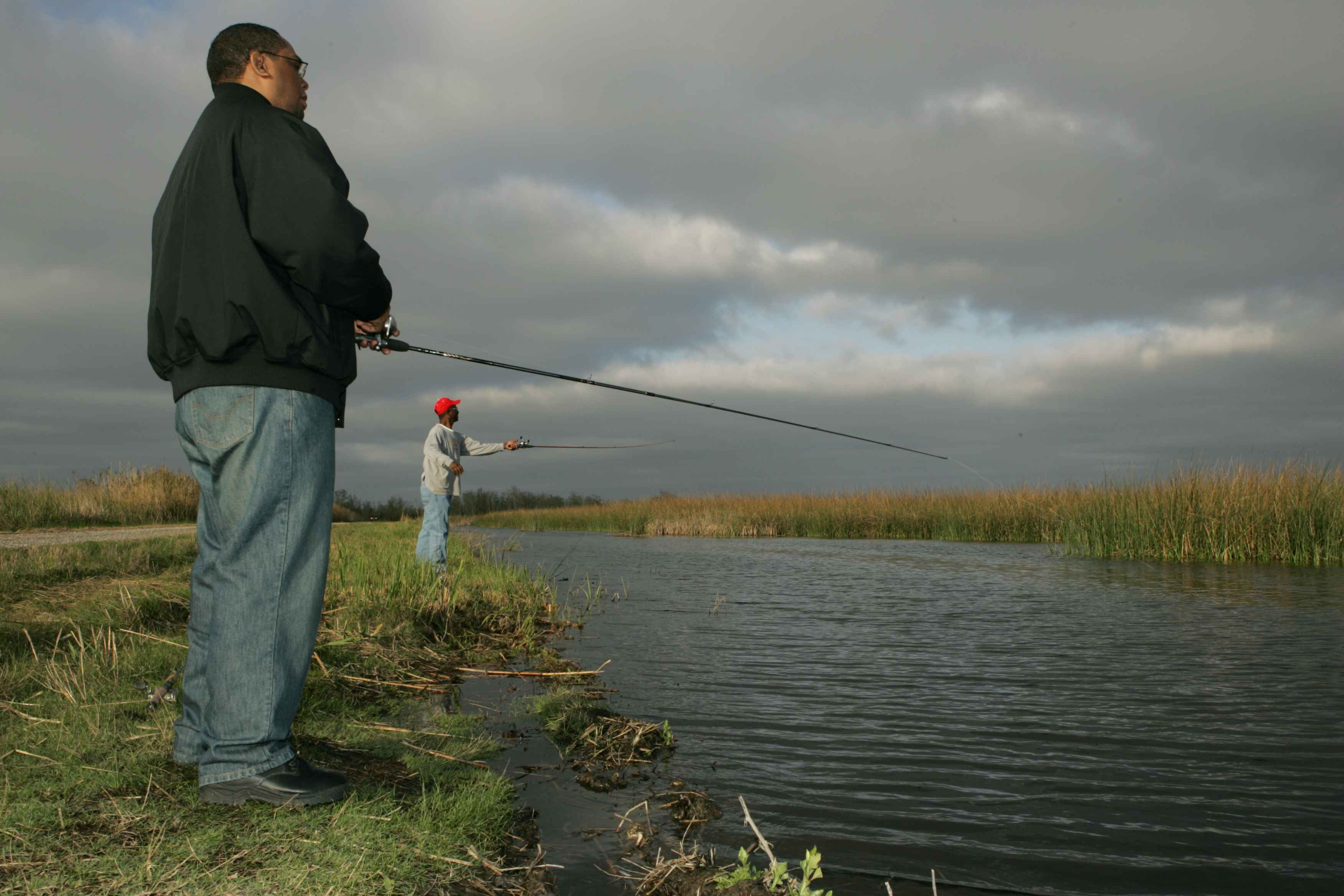 Image title: A good day of fishing Image from Public domain images website